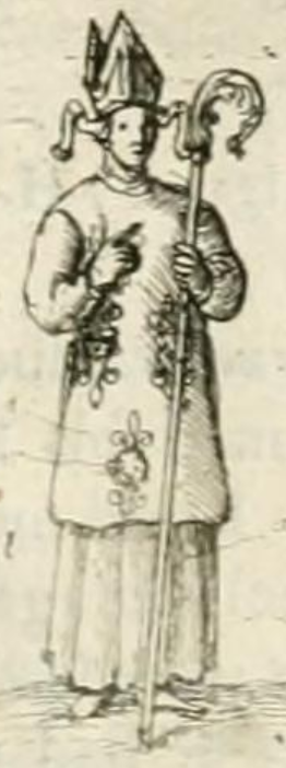 1656 drawing by William Dugdale of ancient (13th. century?) stained glass windows then existing in the Church of St James the Great, Snitterfield, Warwickshire, showing a standing figure of Saint Thomas de Cantilupe (1220-1282), Bishop of Hereford; On his robe he displays the arms of Cantilupe modern: Gules, three leopard's faces jessant-de-lys or, which were later adopted as the arms of the See of Hereford. Also drawn by Dugdale (cropped out of this image, see File:ThomasDeCantilupe Died1282 BishopOfHereford StainedGlass SnitterfieldChurch Warks ByDugdale 1656.png are arms of Cantilupe of Snitterton and their feudal overlord de Clinton (in 1251 Thomas de Clinton was the overlord here of John I de Cantilupe). The manor was held by the bishop's uncle John I de Cantilupe (fl.1251) (who married Margerie Cumin, heiress of Snitterfield) and then by his son John II de Cantilupe (d.circa 1323), whose own son John III de Cantilupe predeceased him in about 1318. John II de Cantilupe (d.circa 1323) left a daughter and sole heiress Eleanor de Cantilupe, who by then was the wife of Thomas West, thus it passed to her descendants the West family, surviving today as Earl De La Warr, who quarter these arms of Cantilupe of Snitterfield. (Descent of the manor of Snitterfield related by Dugdale, pp.504-5).